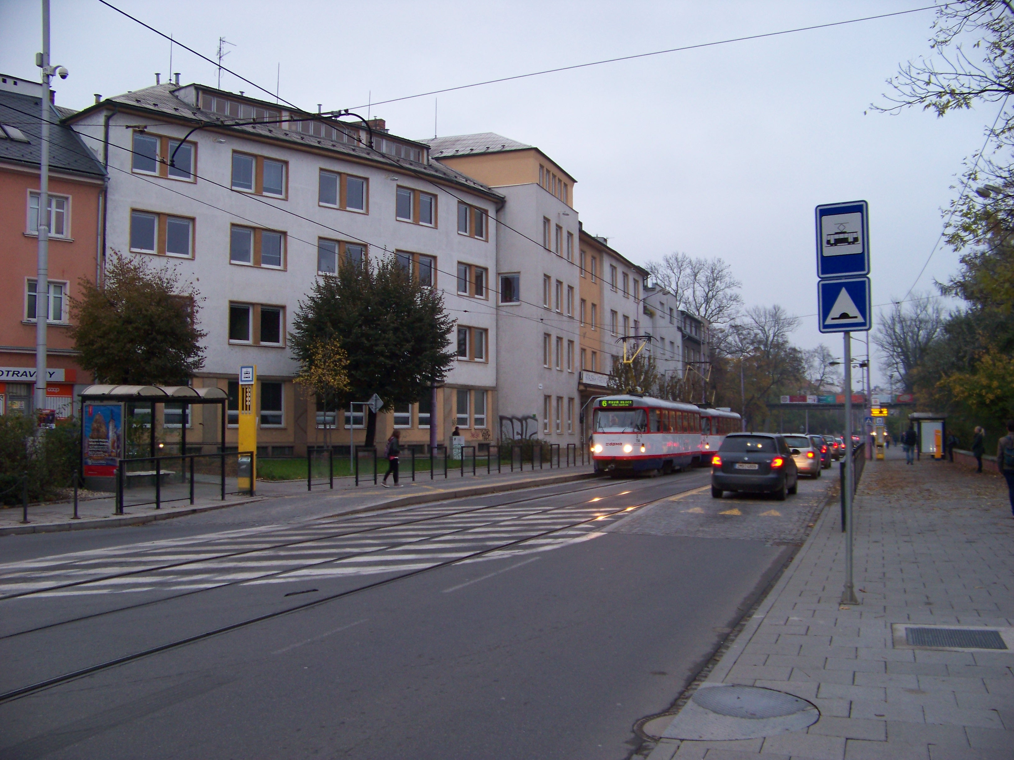 Olomouc-Nová Ulice, Olomouc District, Olomouc Region, Czech Republic. Wolkerova street, tram stop Výstaviště Flora.